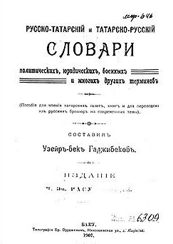 Russian-Azerbaijanian and Azerbaijanian-Russian dictionary